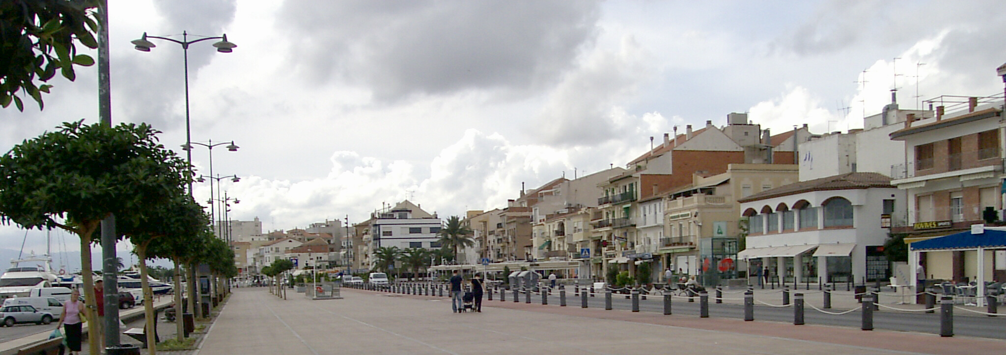 Maritim Street, Cambrils, Catalonia, Spain